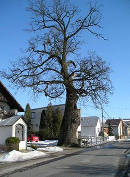 Dubinné Village (Slovakia)